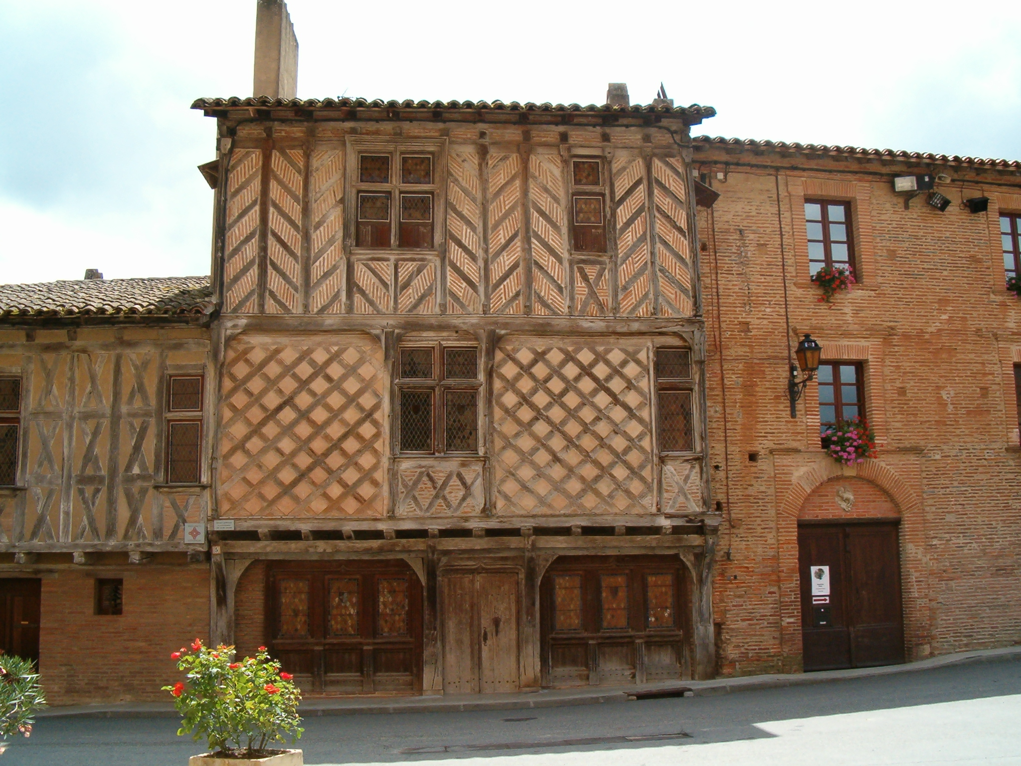 House in the front of cathédrale de Rieux-Volvestre, 14e, 15e century